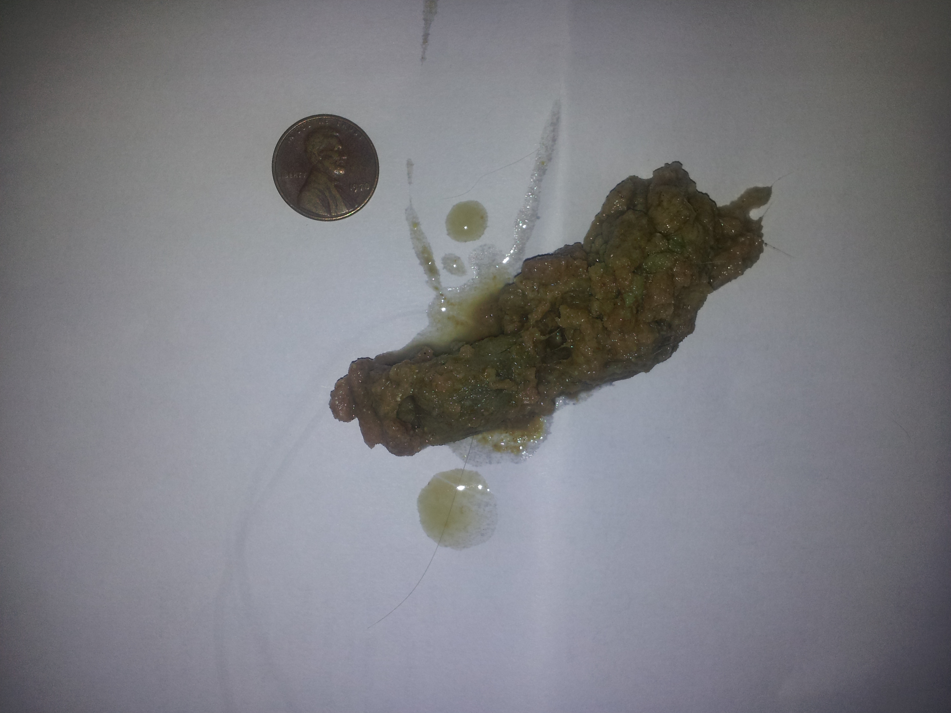 A fresh hair ball my poor cat just expunged